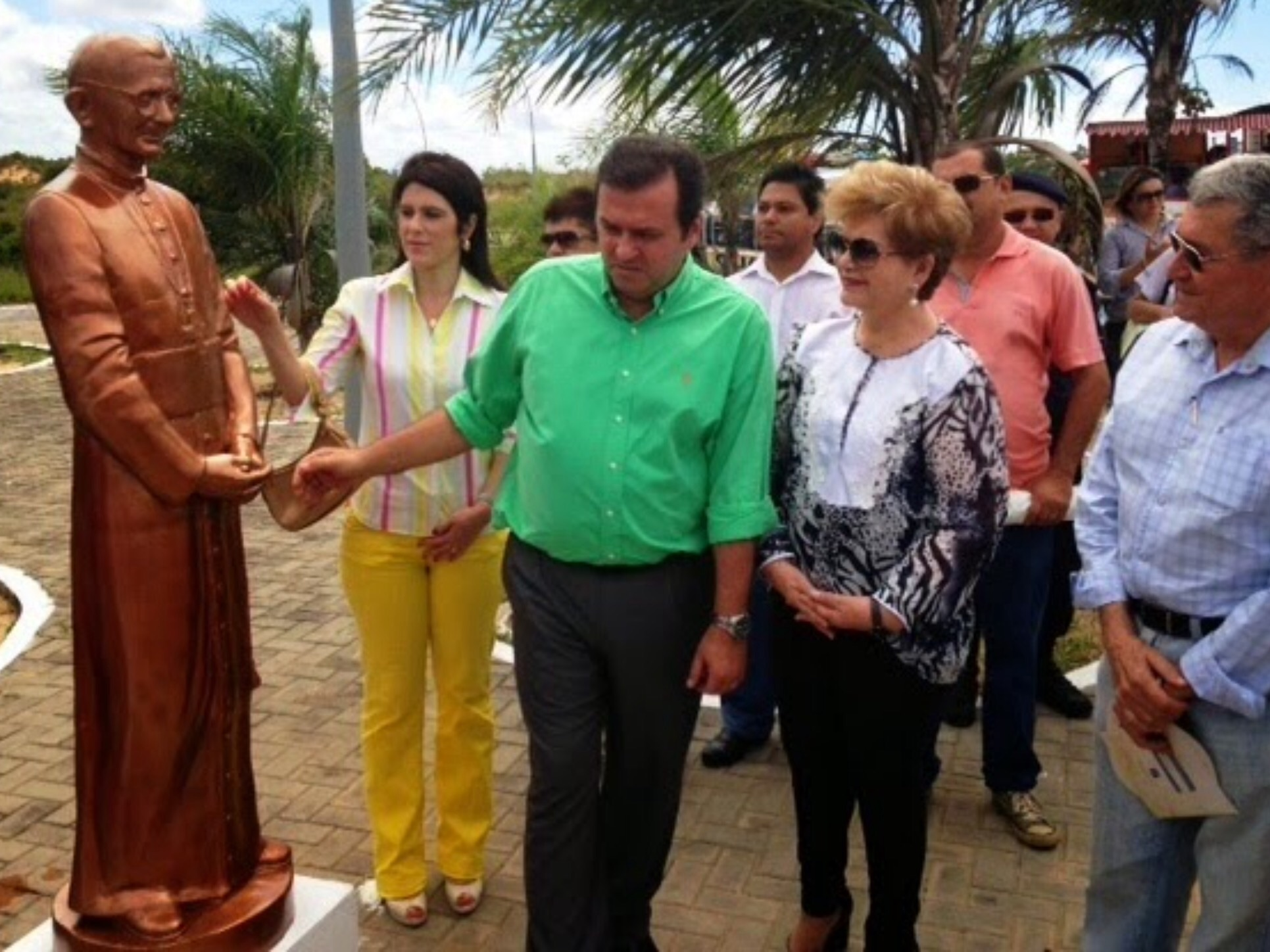 Estatua dom nivaldo